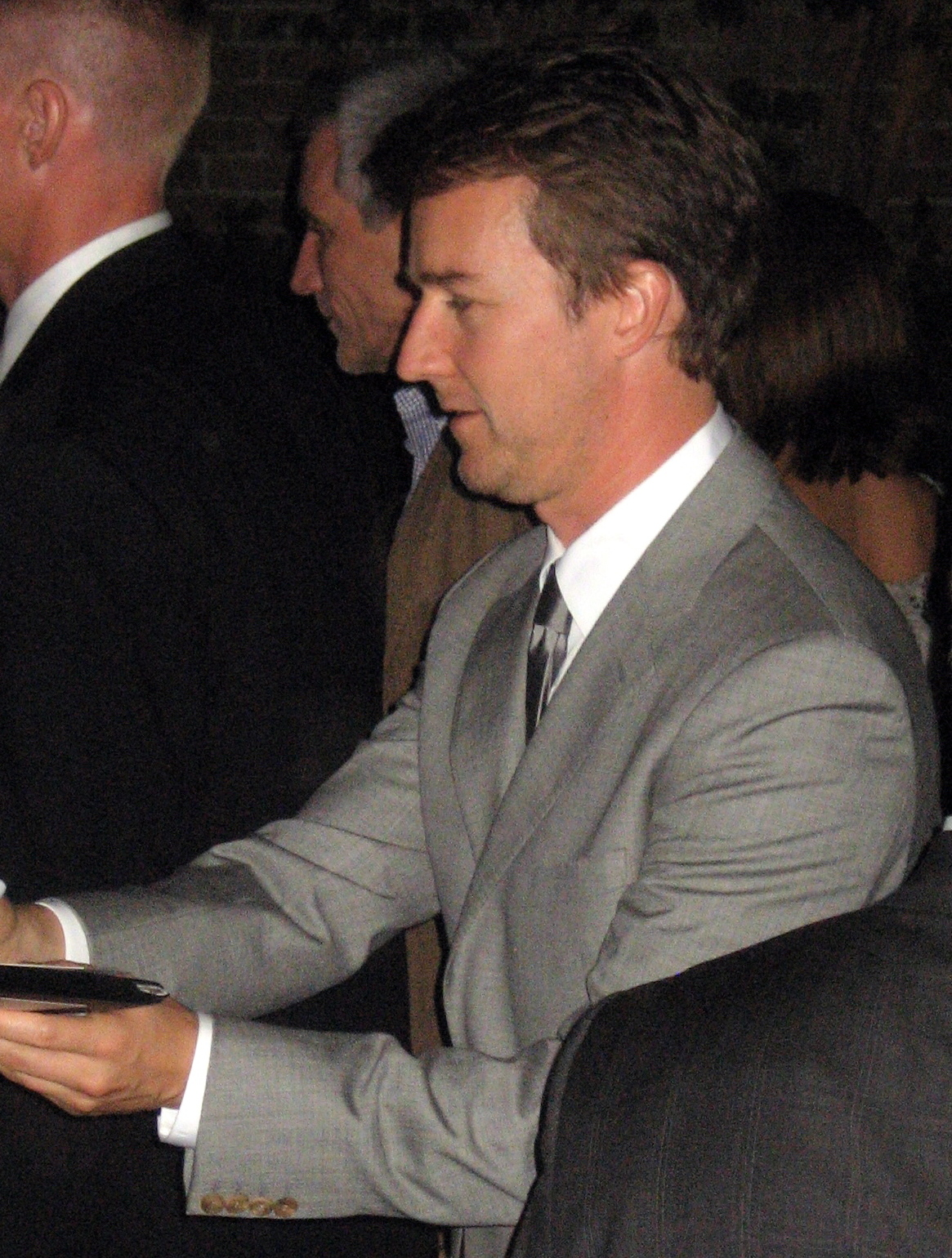 Edward Norton at the premiere of Leaves of Grass, Toronto Film Festival 2009